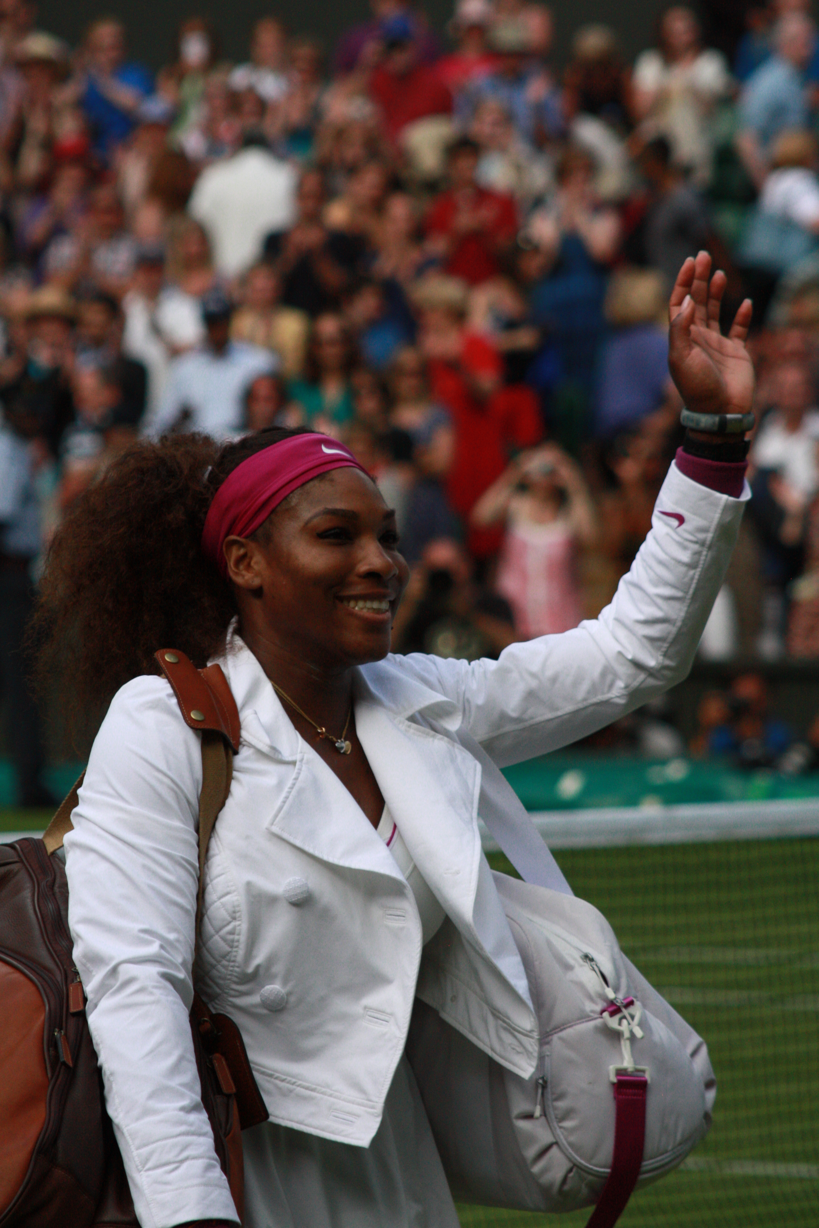 Serena Williams at the 2012 Wimbledon Day 10